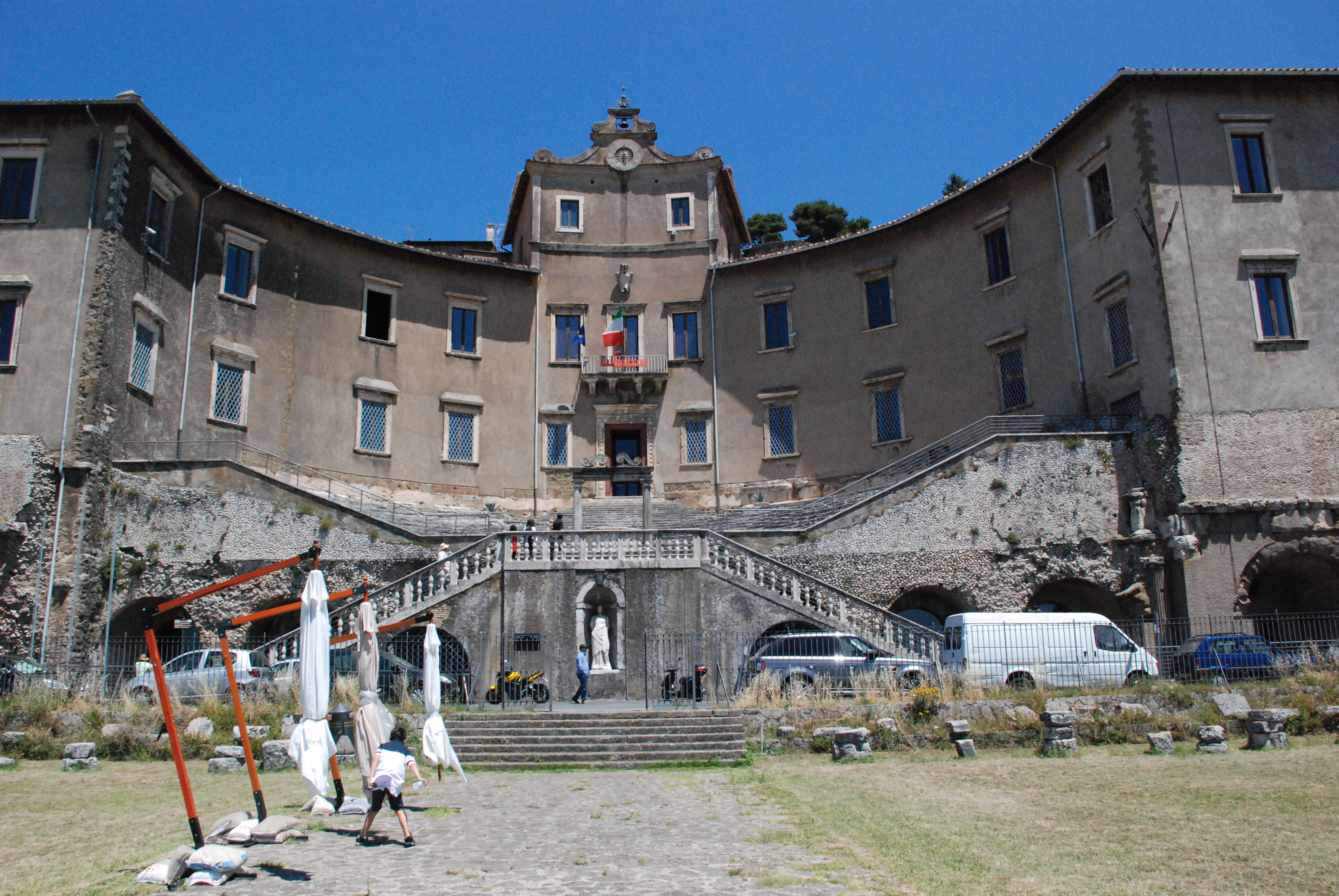 Sanctuary of Fortuna Primigenia and The National Archeological Museum Of Palestrina